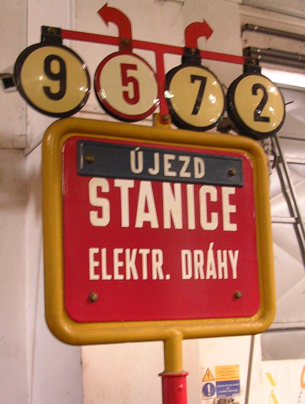 Střešovice, Prague, the Czech Republic. Střešovice tram depot and transport museum. A historical tram stop sign.